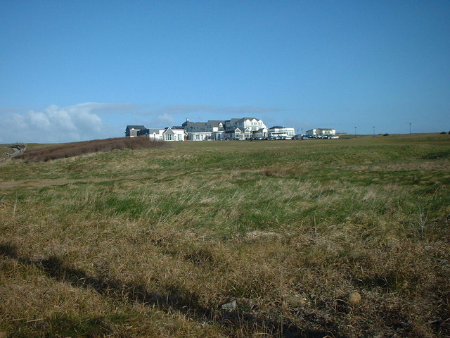 The Great Northern Hotel, Bundoran Impressive hotel with golf course on a headland at Bundoran